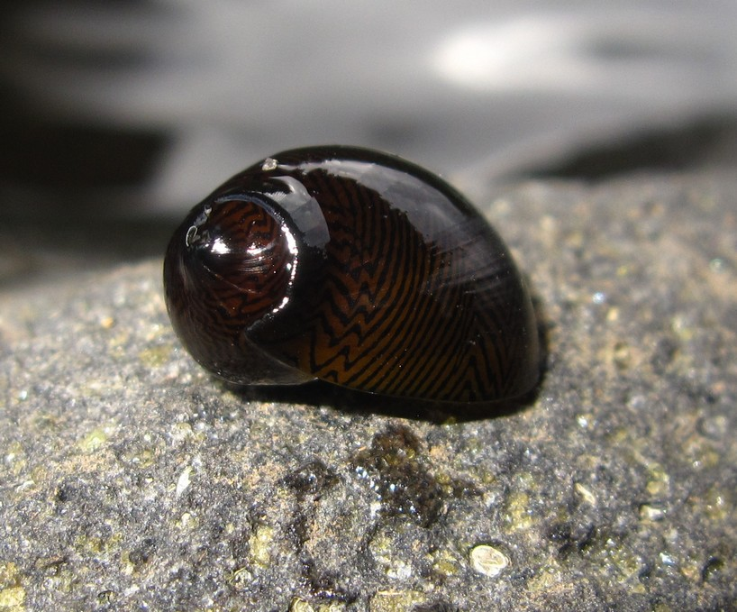 unidentified freshwater gastropod from [La [Réunion , Ravine à Marquet, La Possesion